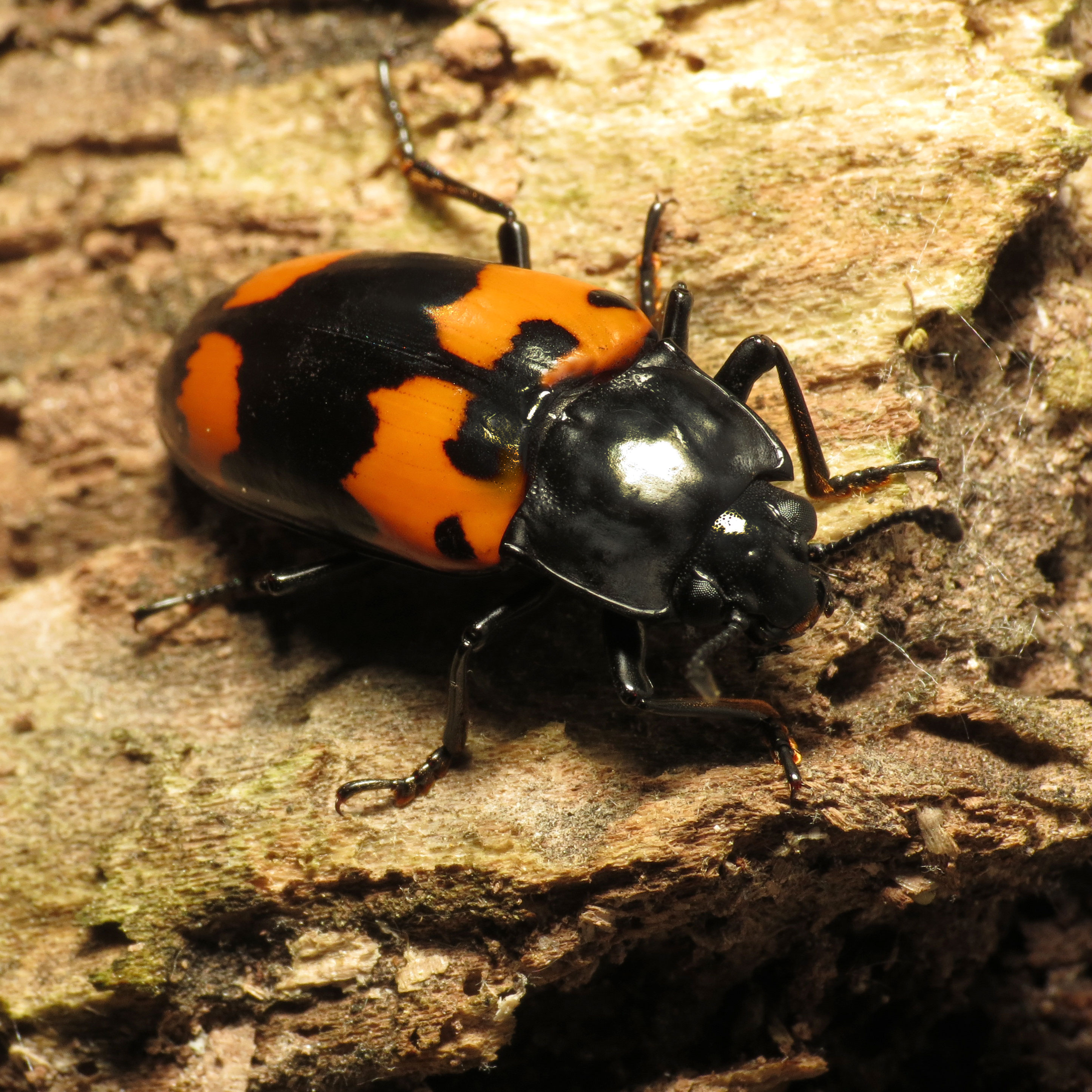 Megalodacne heros. Rock Creek Park, Washington, DC, USA. 25 May 2014.